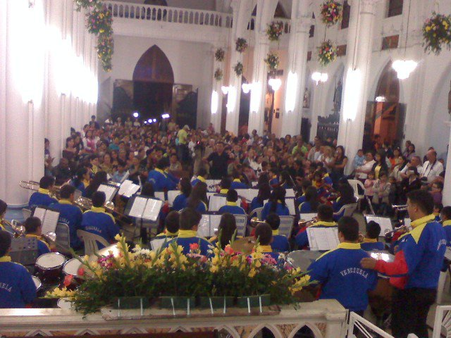 Feast of Our Virgin of the Angels